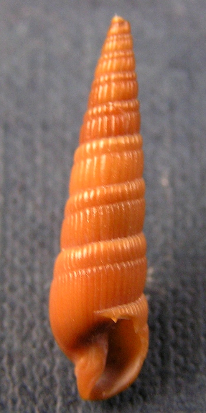 Duplicaria kieneri Deshayes, 1859, an auger snail form the family Terebridae; South Australia